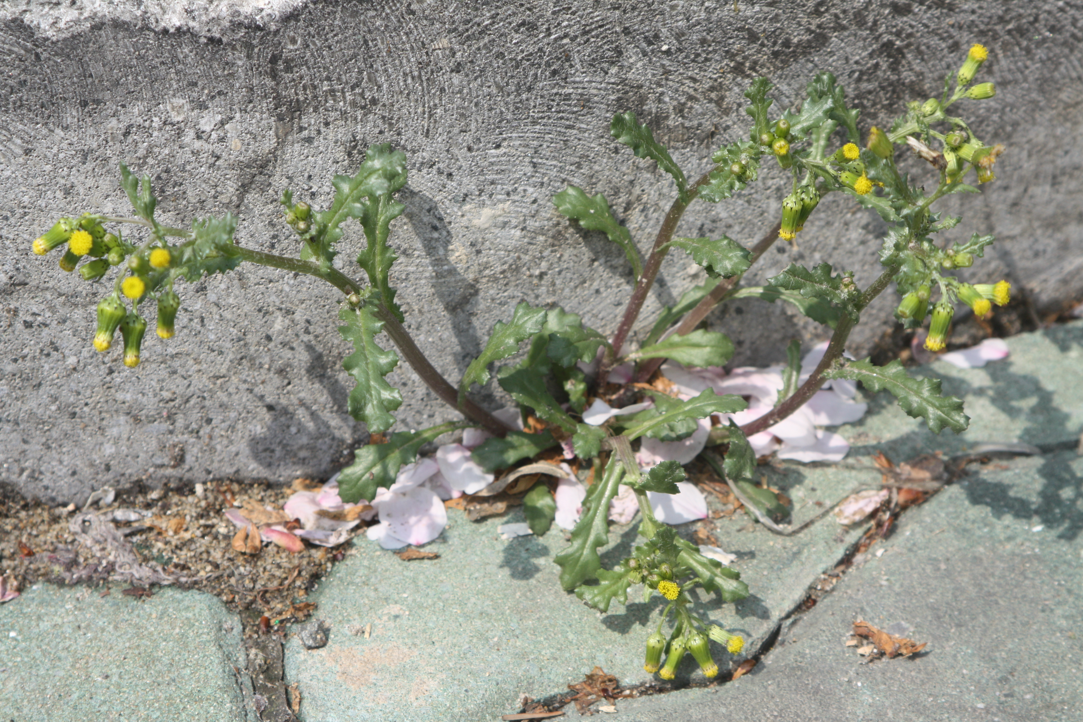 Senecio vulgaris